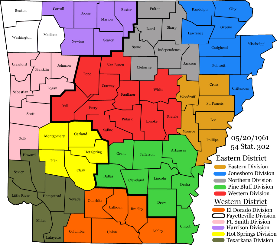 Arkansas districts - 1961